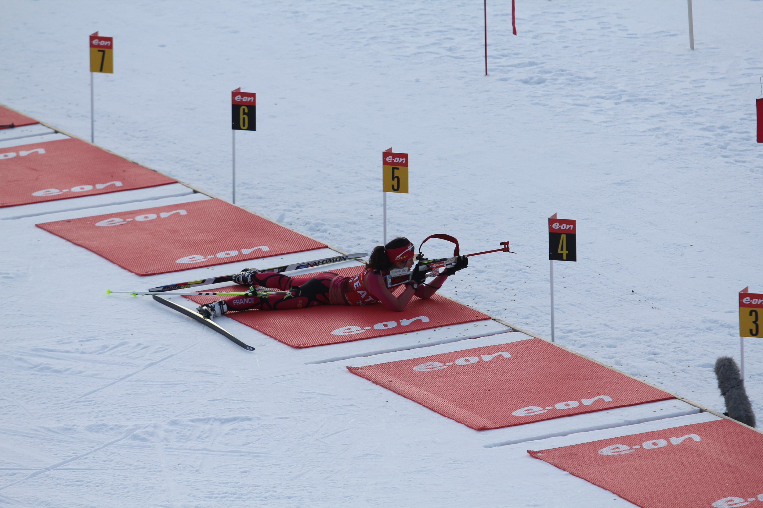 Sophie Boilley at Biathlon Weltcup 2013 in Oslo